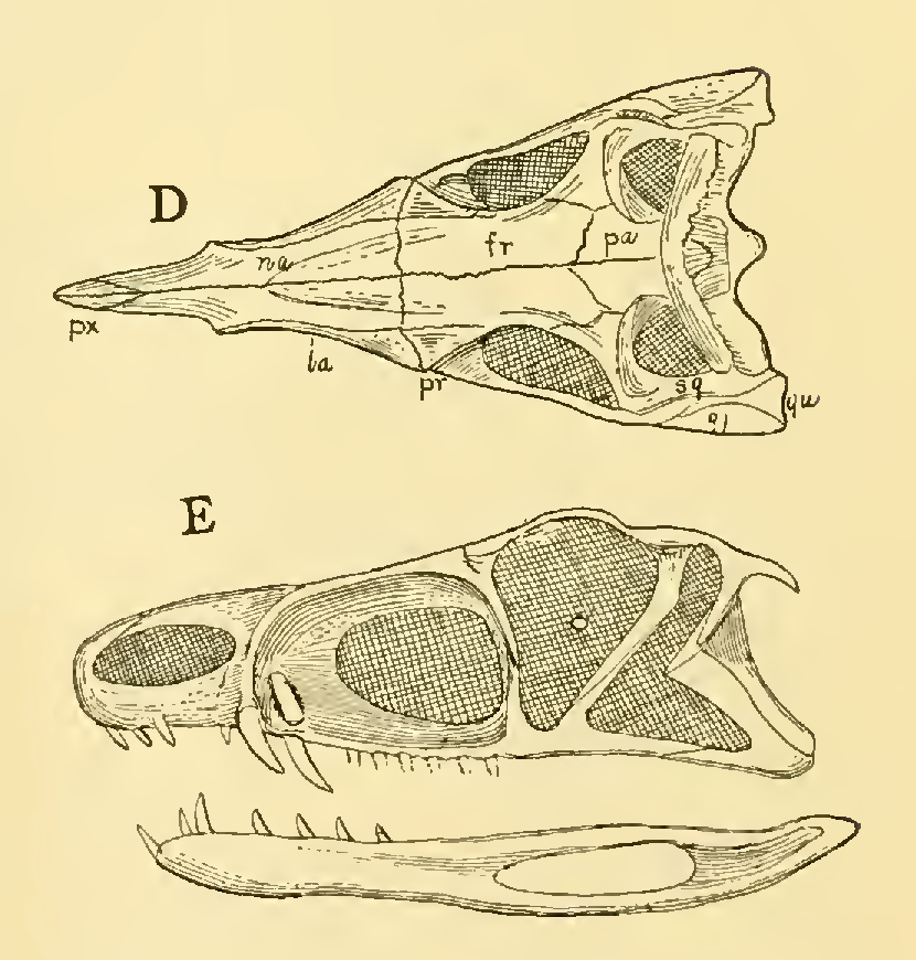 An illustration from The Osteology of the Reptiles